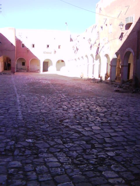 it is the Souk (market) which is built by local materials such as lime; stone This is an image with the theme "Play" from: Algeria